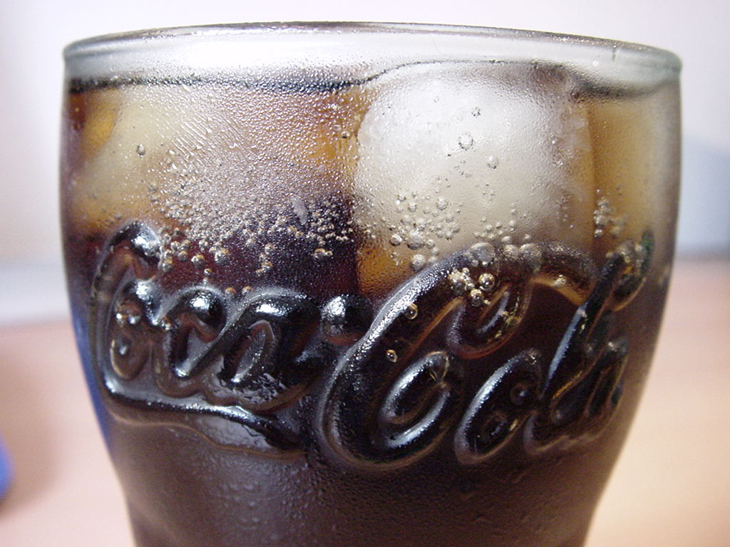 Coca-Cola in a glass with ice